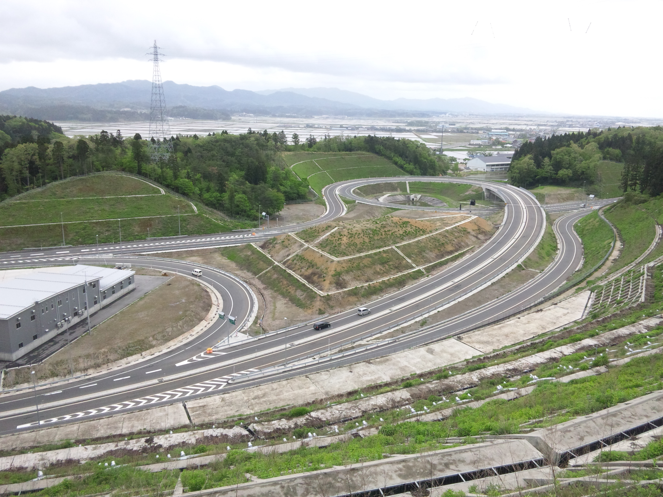 Murakami-Senamionsen Interchange, Nihonkai-Tohoku Expwy, Japan.